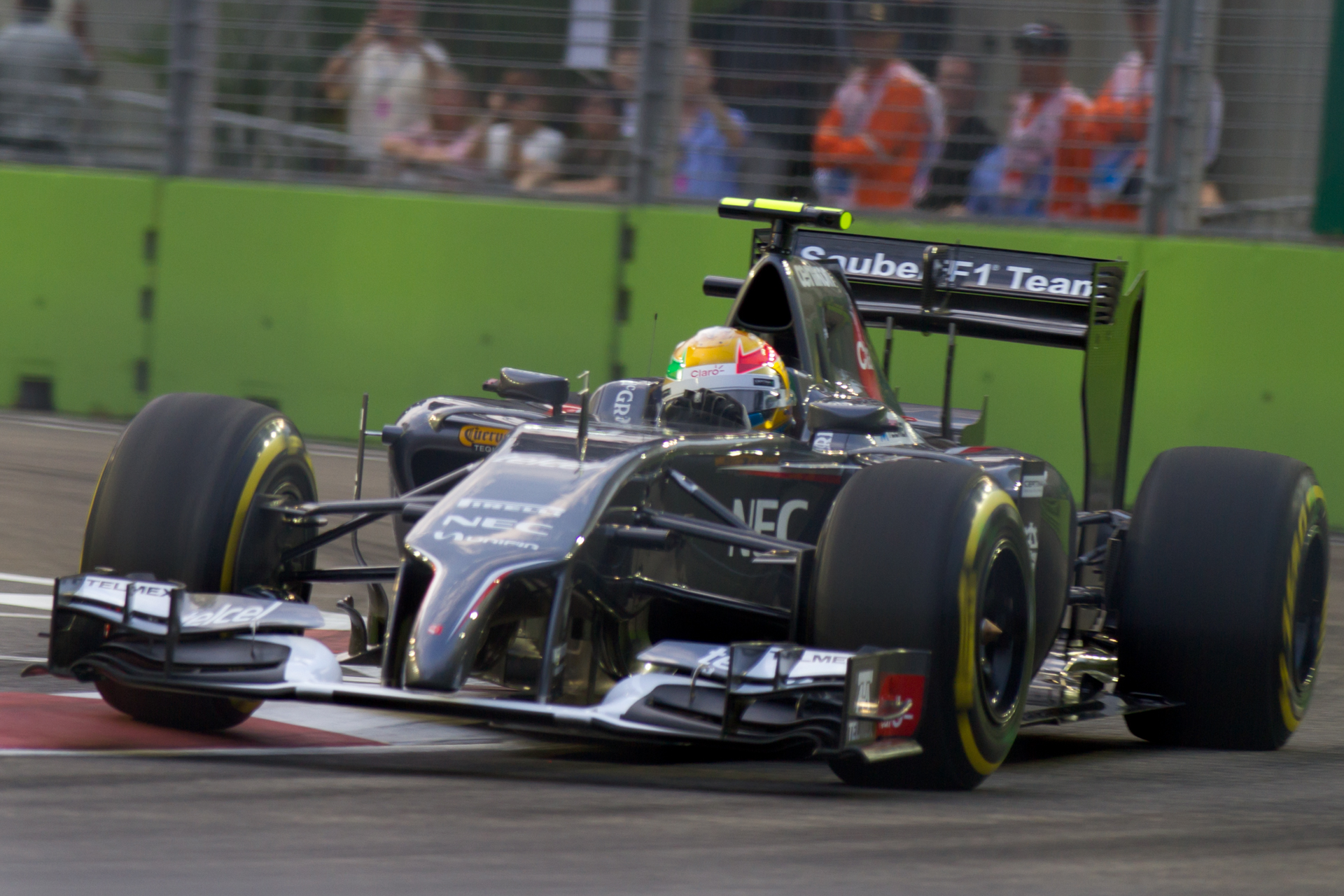 Formula One 2014 Rd.14 Singapore GP: Esteban Gutiérrez (Sauber)